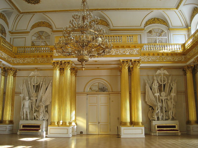 Amorial Hall at the Winter Palace, St. Petersburg, Russia. Architect: V.P. Stasov